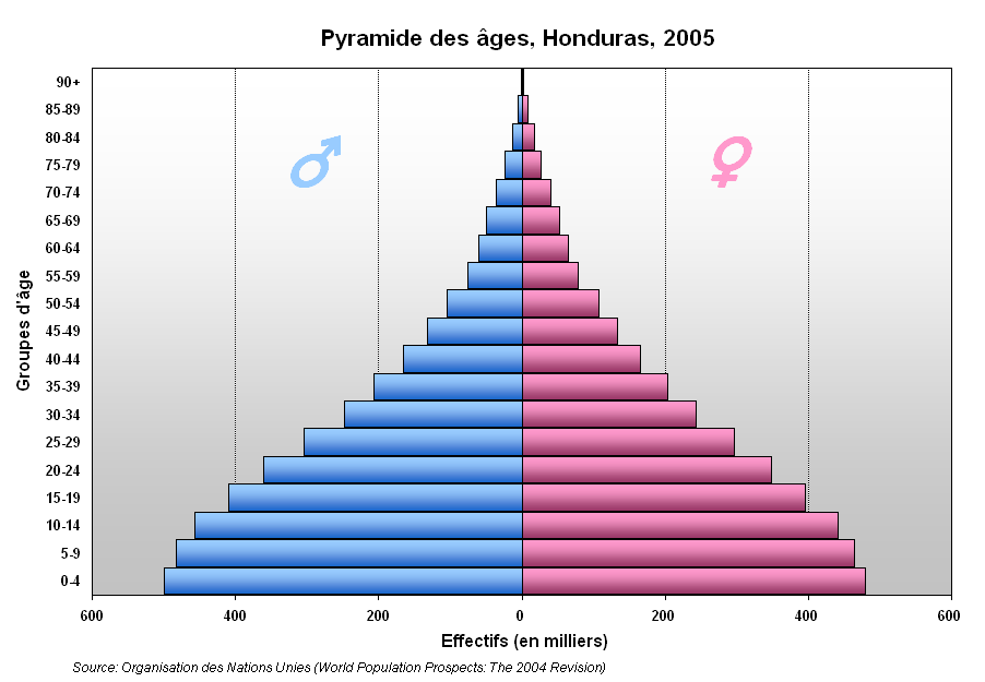 Honduras Population pyramid, 2005